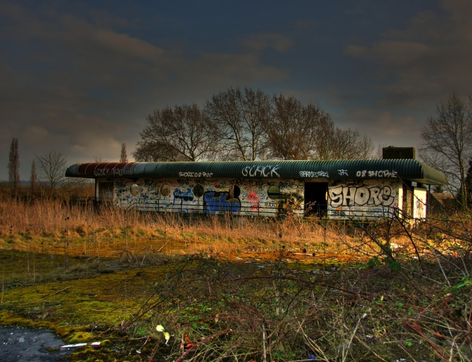 Elliots nightclub 2009